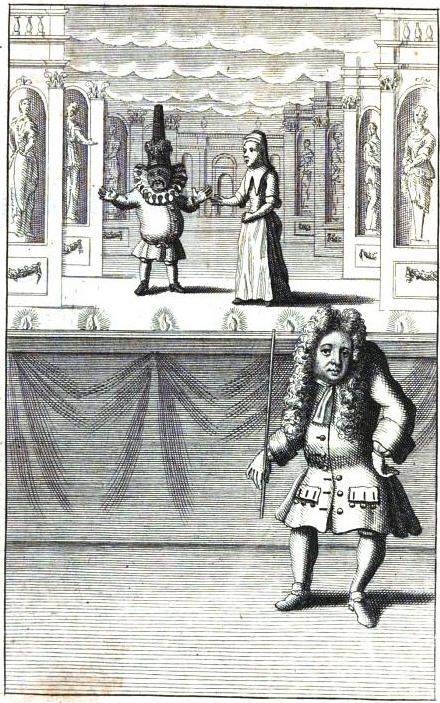 Early Punch and his mistress (Judy(?)), with Martin Powell, frontispiece of Burnet's A Second Tale of a Tub (1715)